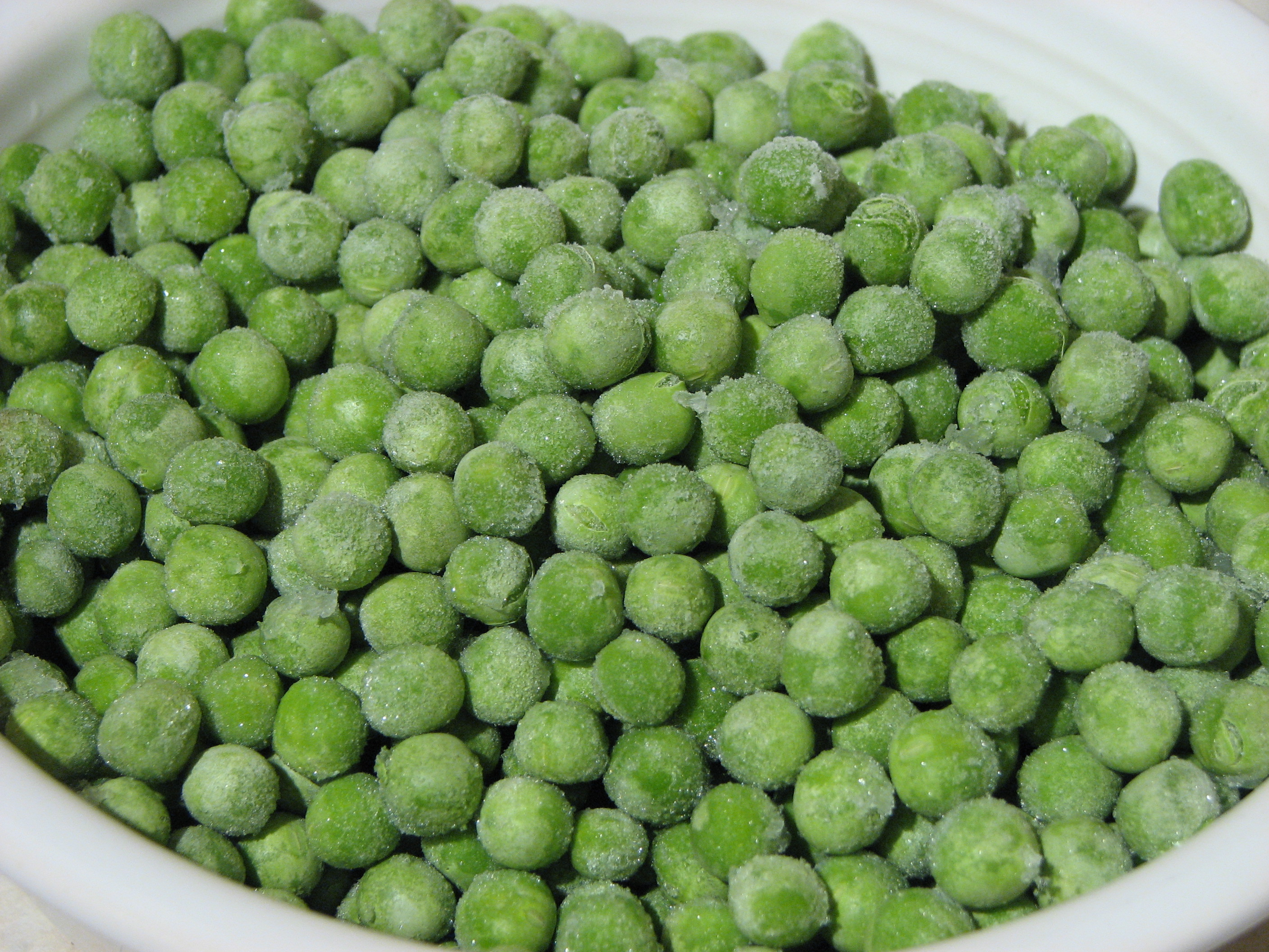 Frozen peas (Pisum sativum).